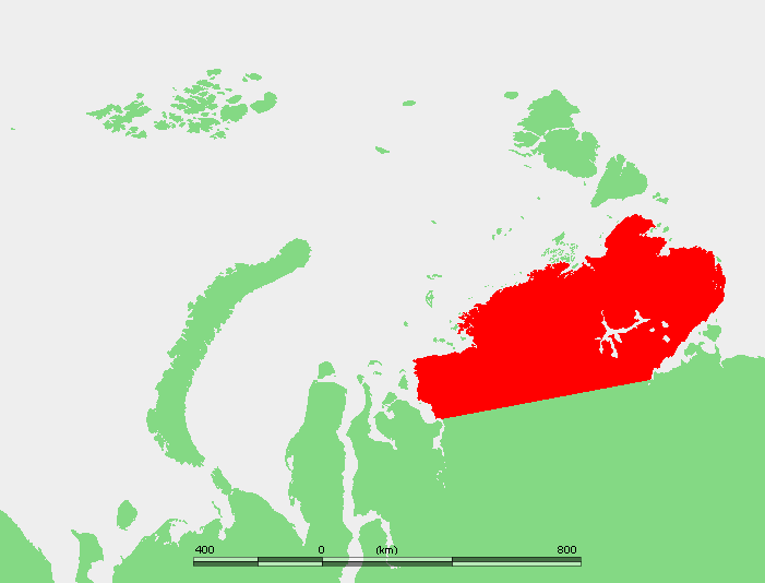 Locator map of Taymyr Peninsula